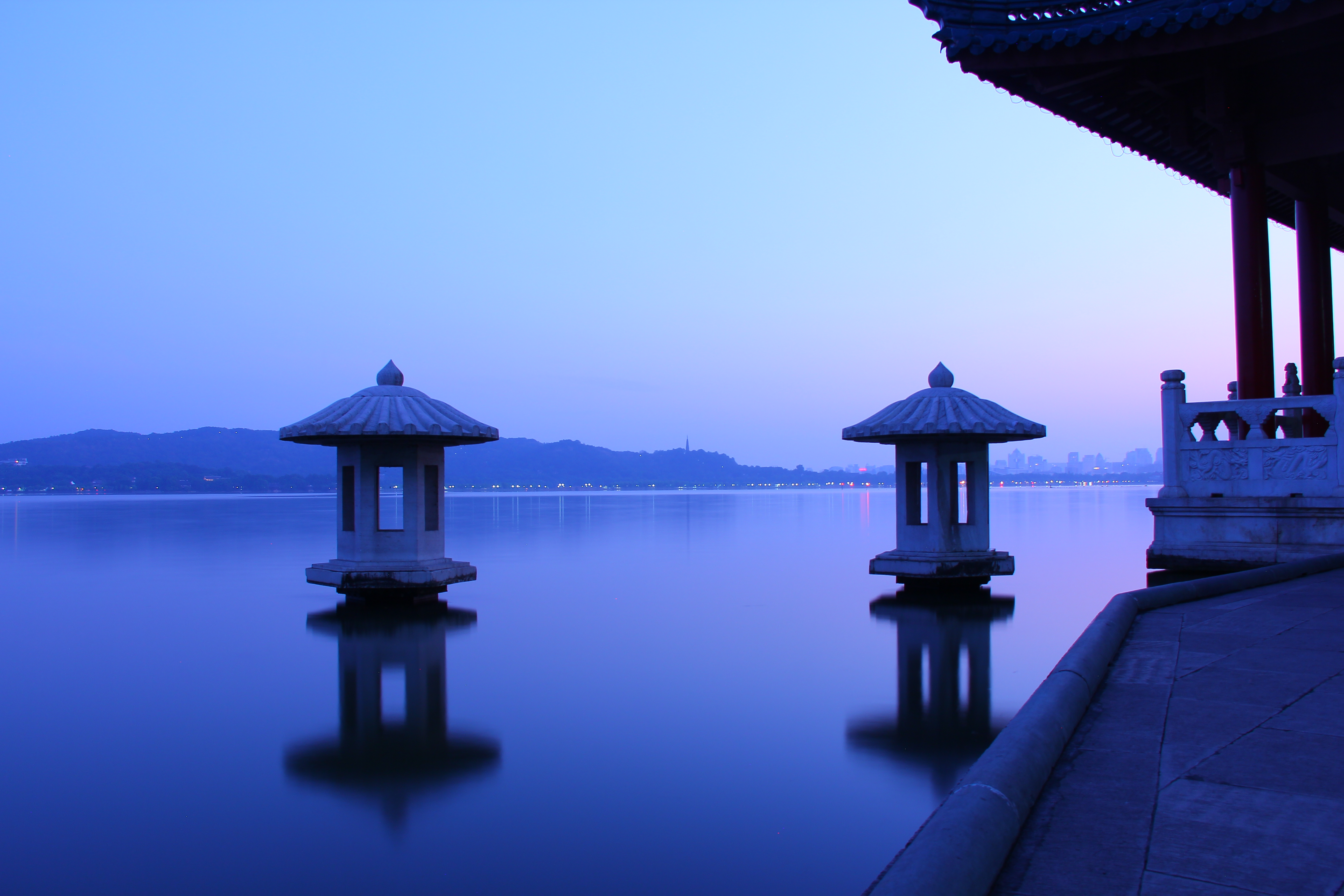 Autumn Moon Over the Calm Lake. Xihu, one of the ten famous scenes, calm lake and autumn moon. West Lake in Hangzhou, Zhejiang Province, China